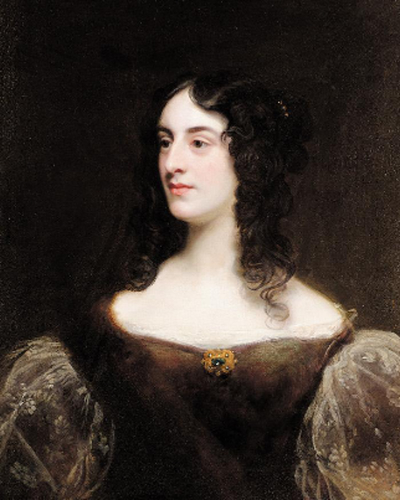 Catherine Sherwin Gregory, owner of Harlaxton Manor, Lincolnshire